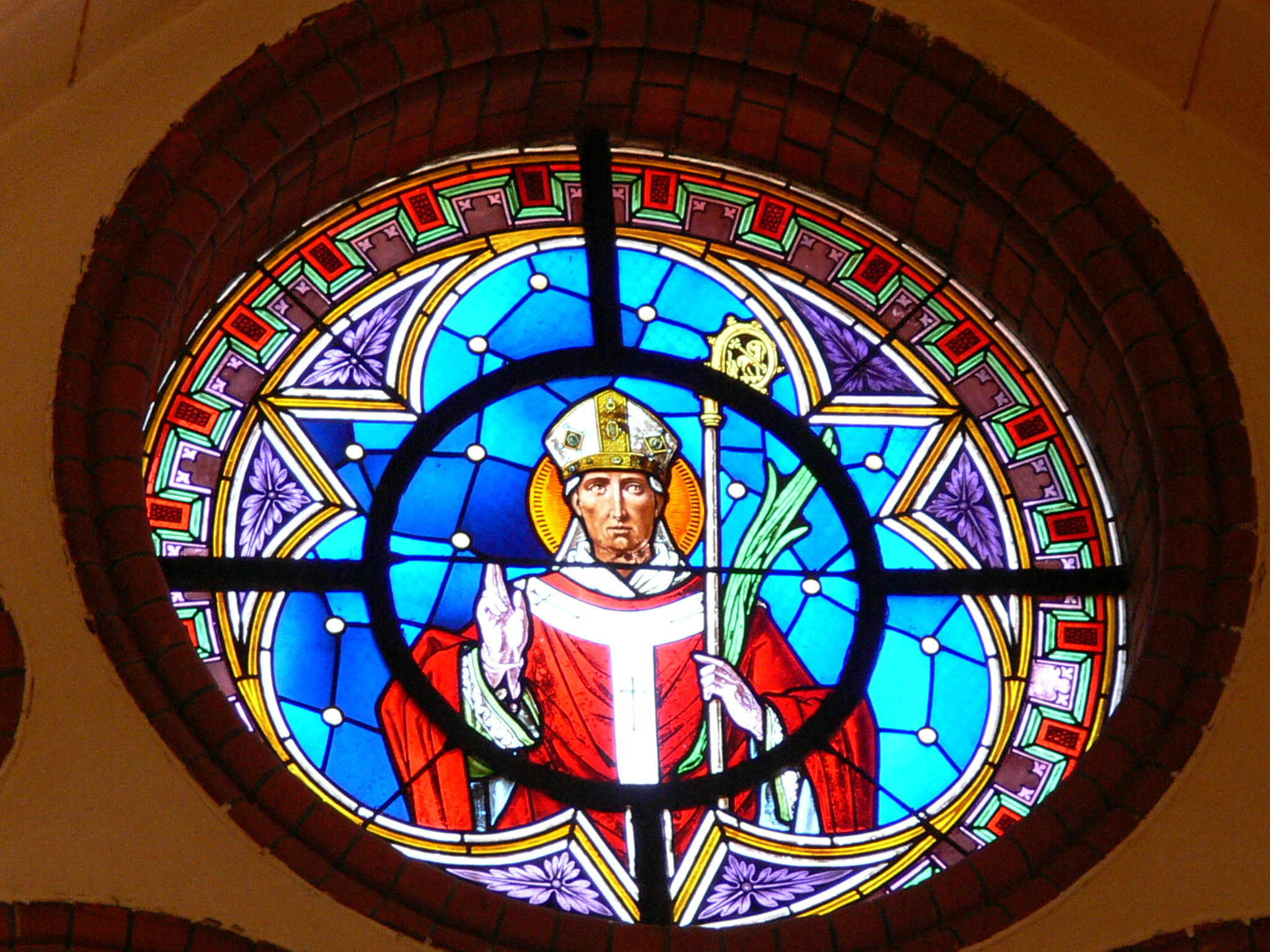 Aigen parish church. Stained glass window showing Saint Maximilian of Celeia.